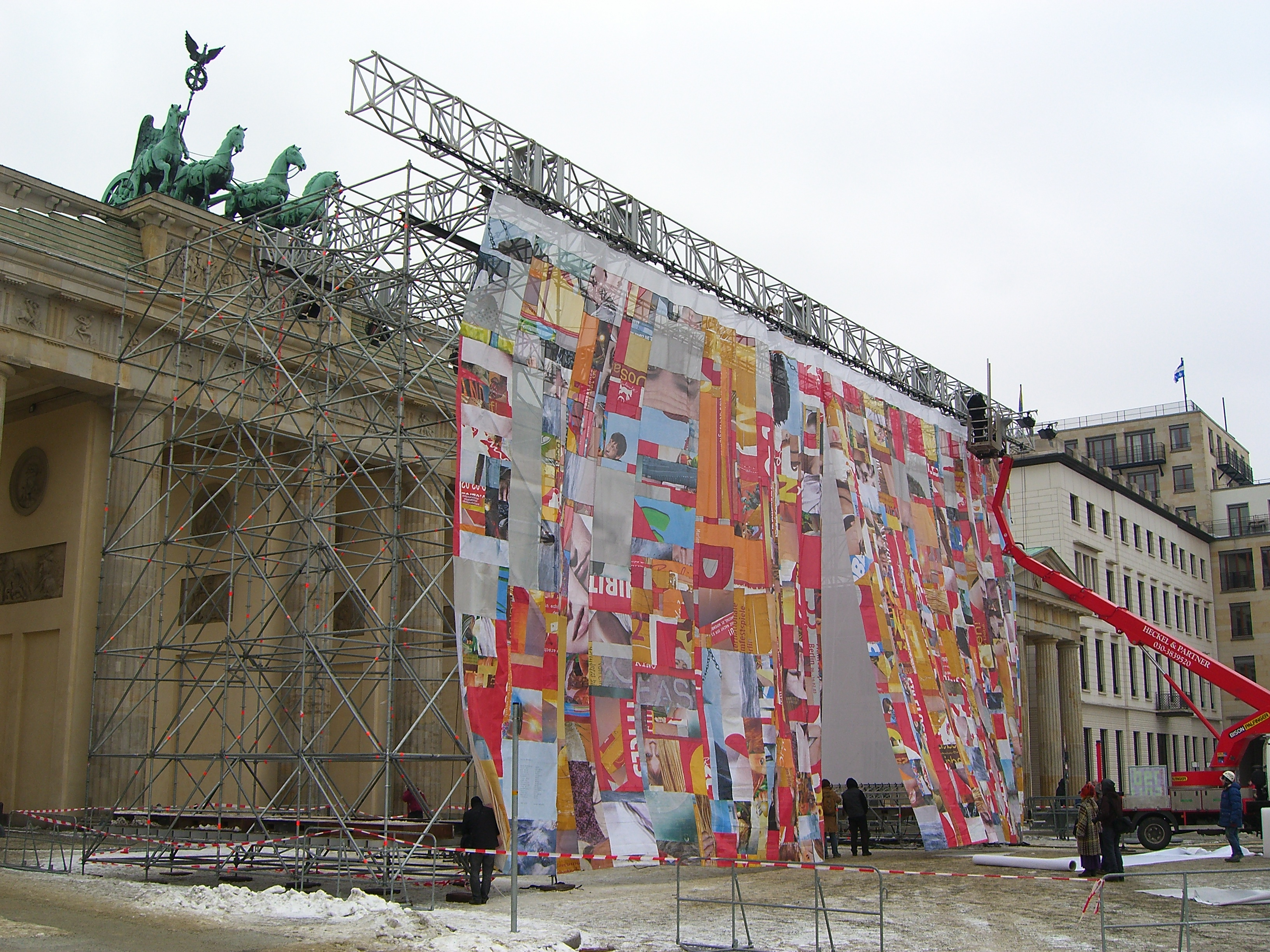 Open-air movie screen to the film premiere of "Metropolis" during the Berlin International Film Festival in 2010.